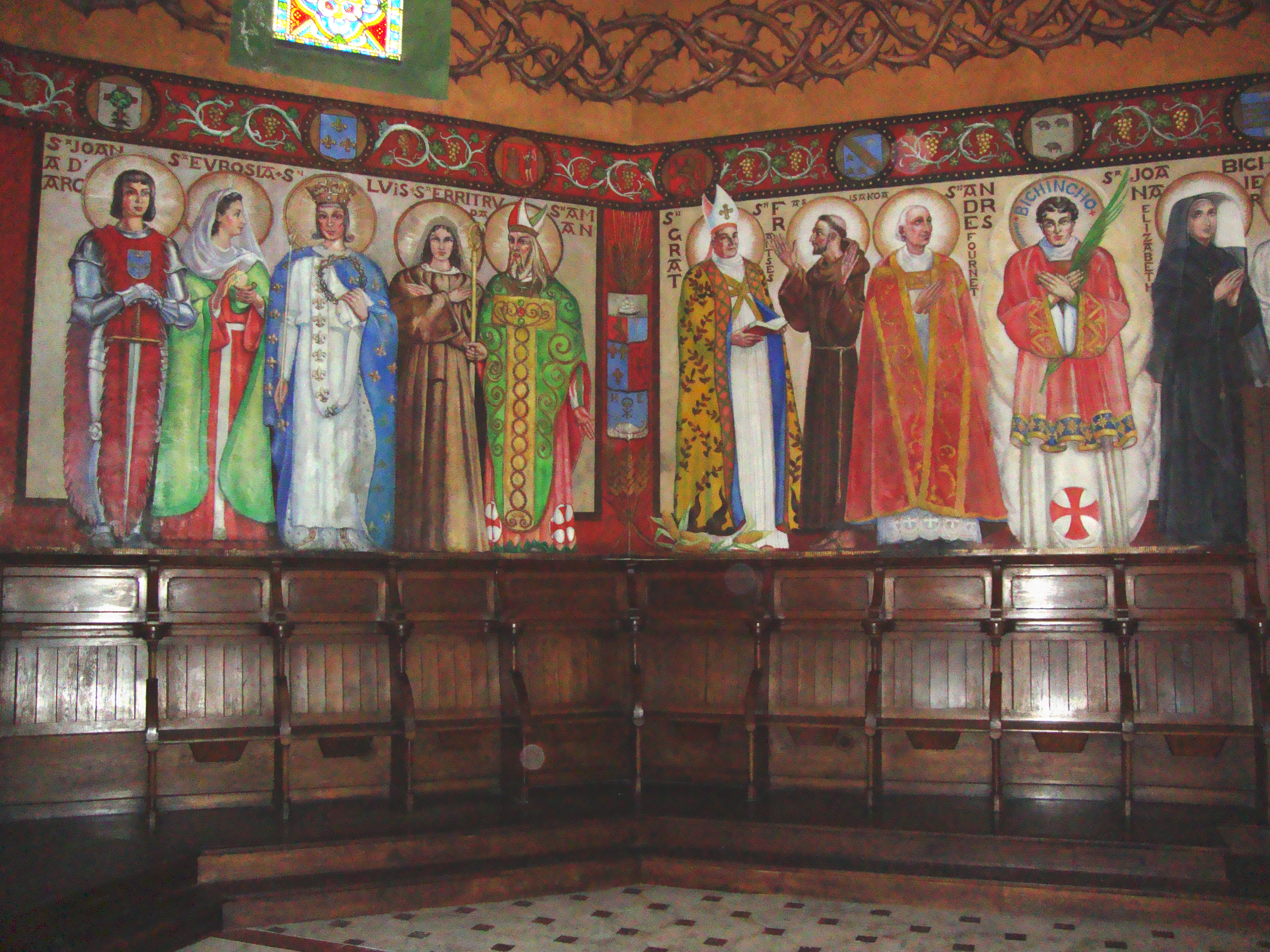 Ustaritz (Pyr-Atl., Fr) église Saint-Vincent-diacre, wall paintings